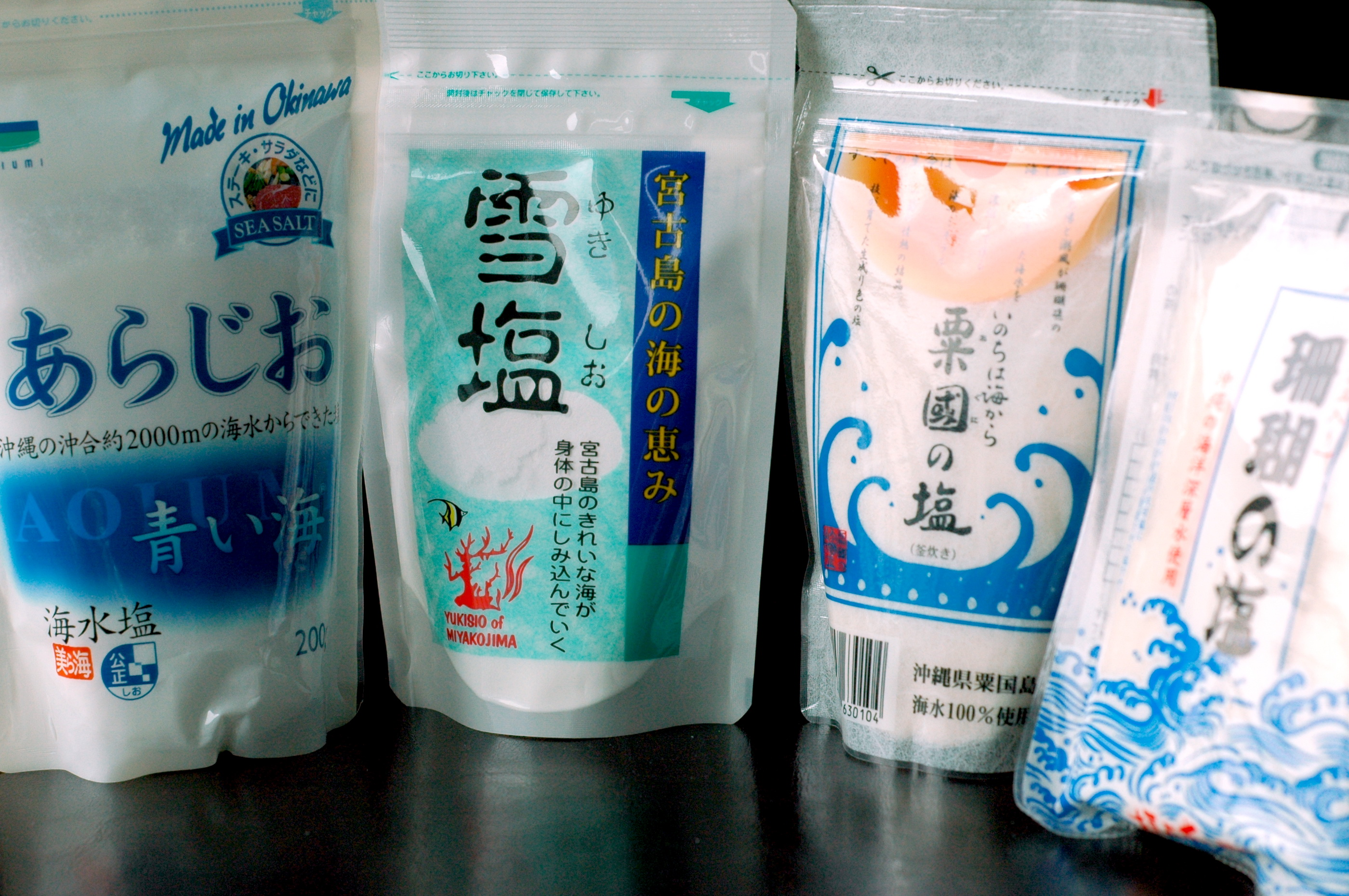 Sea salt from Okinawa, Japan.